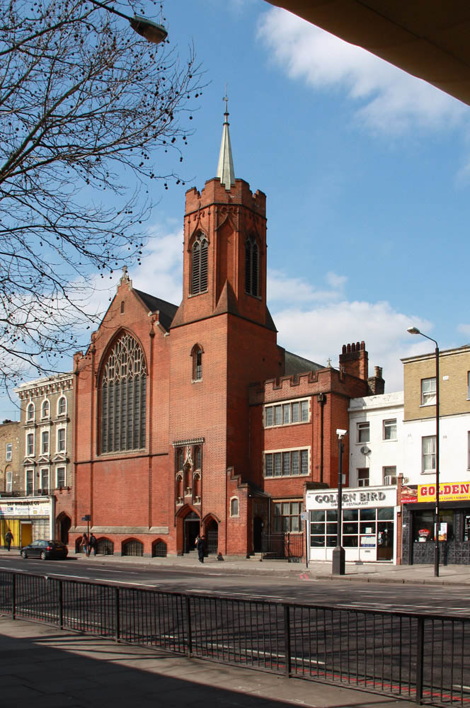 Guardian Angels Church, Mile End Road